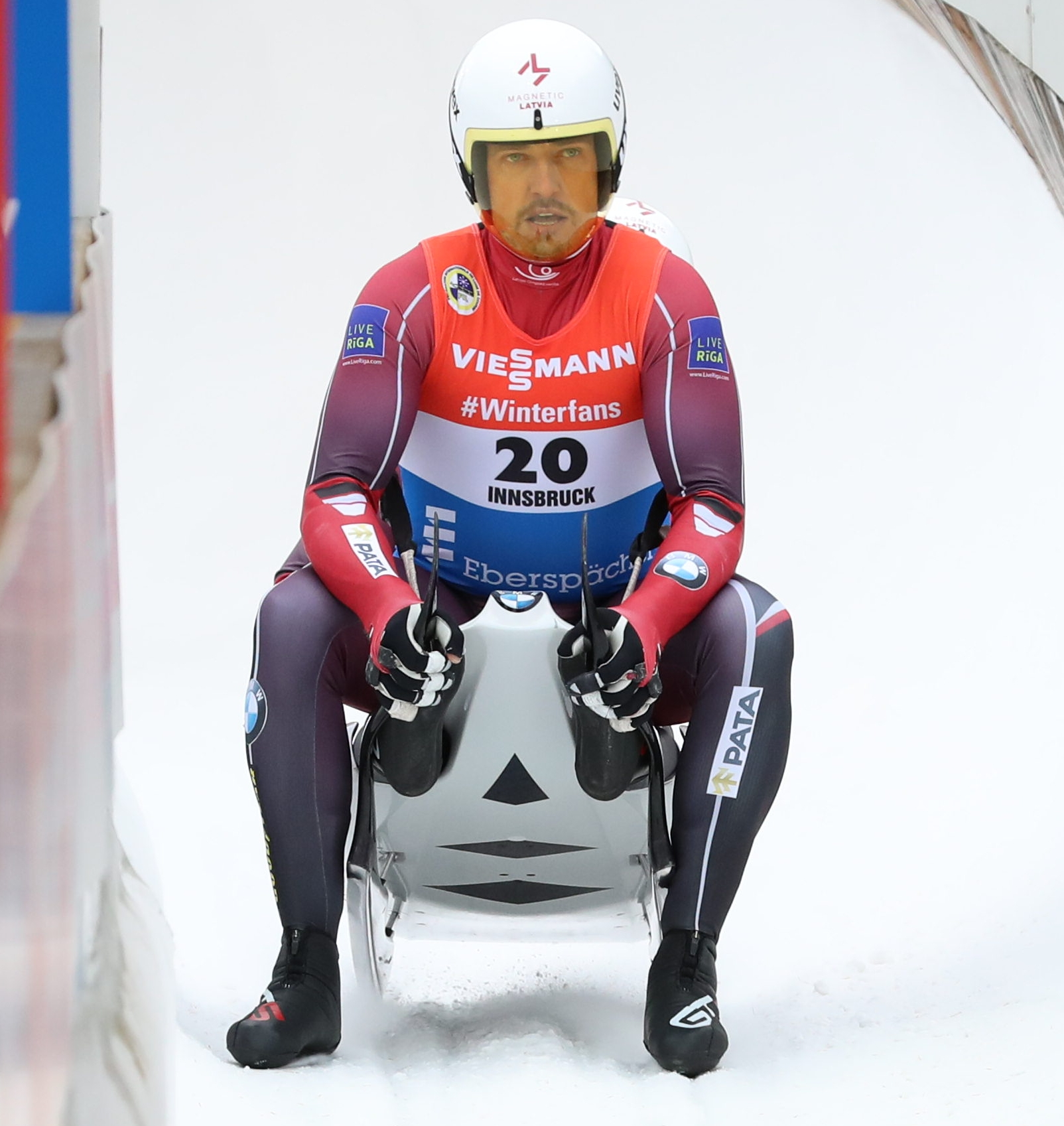 Doubles World Cup race at the 2018/19 Luge World Cup in Innsbruck-Igls